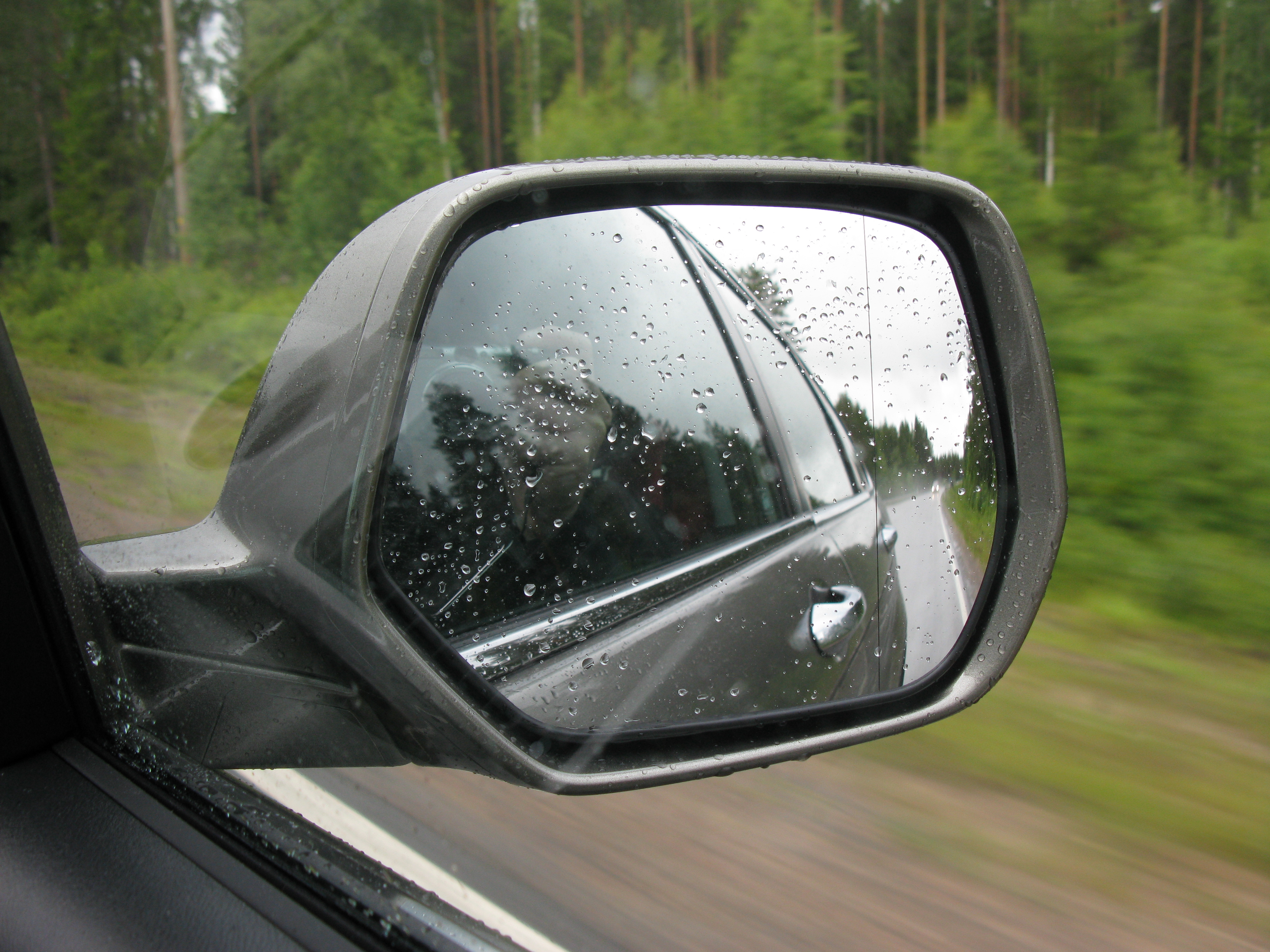 The left-hand side side mirror (seen from the front) of Honda CR-V 2008 model.